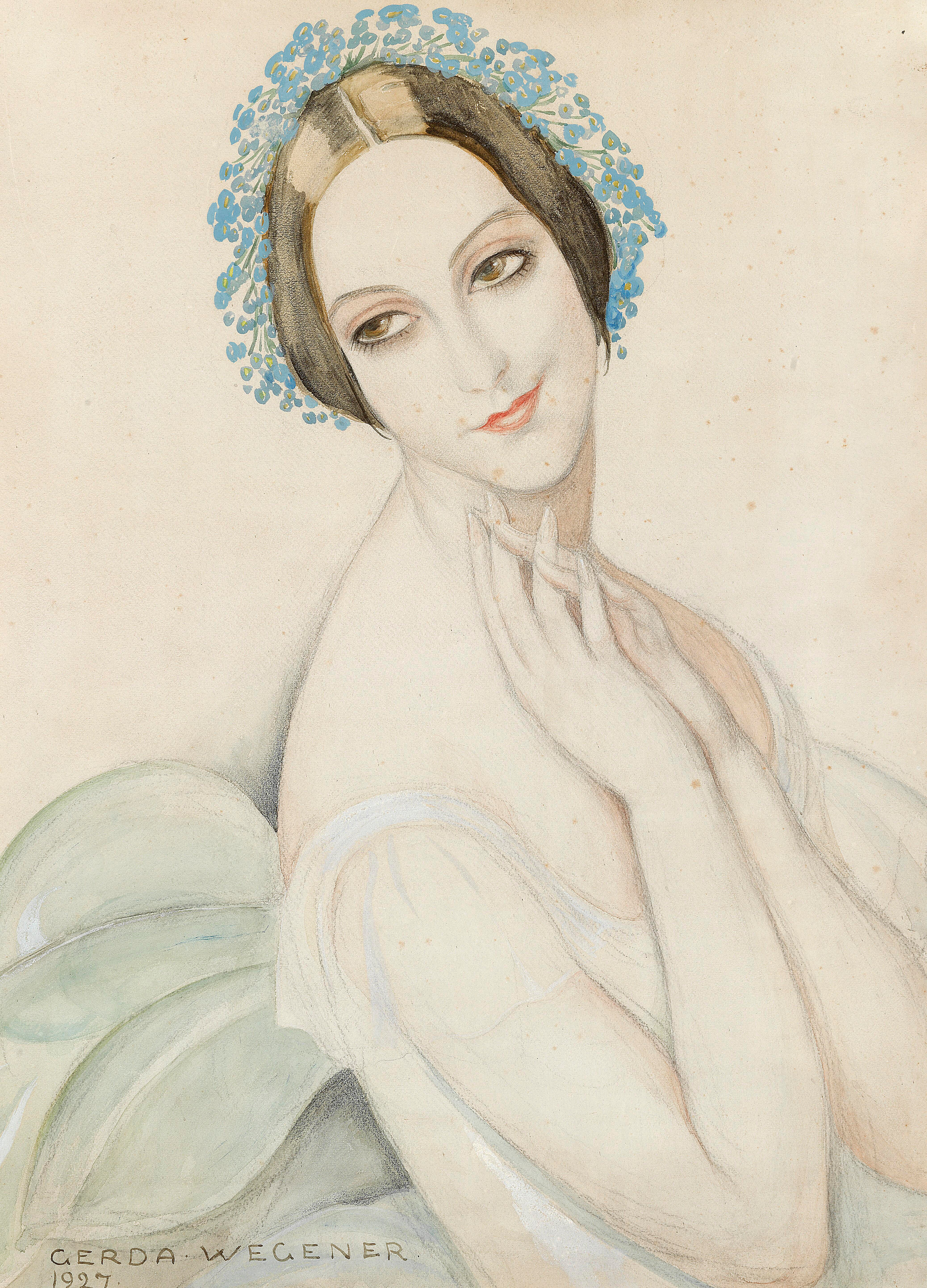 Portrait of the Danish ballet dancer Ulla Poulsen (1905-2001) , 1927